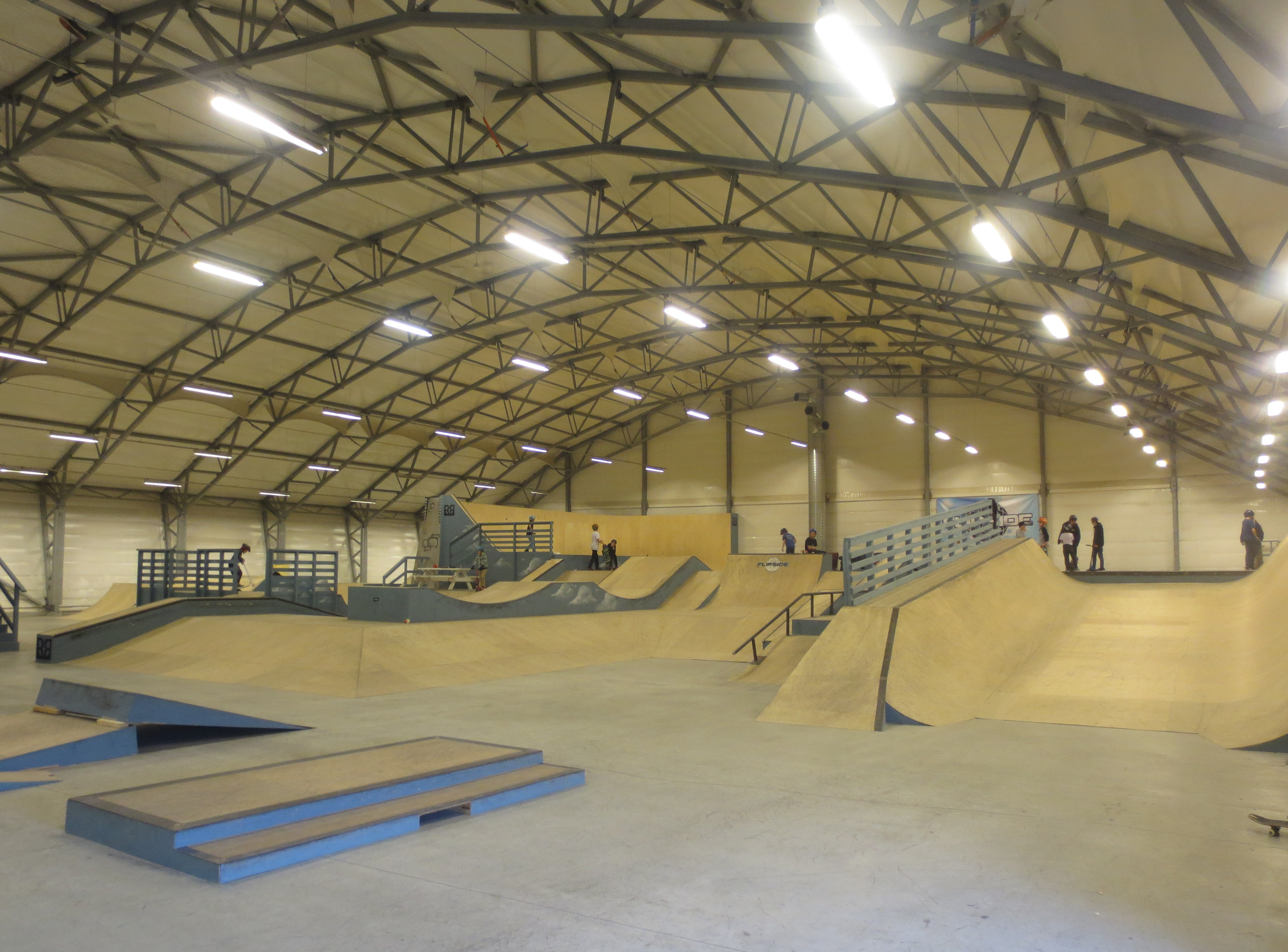 The Flipside Camp park at former Lista Air Force Station 8flystasjon9 in Farsund, Norway. Flipside has og-cart, paintball, skateboard (2.500 sq ms indoor) and youth summer camp facilities.